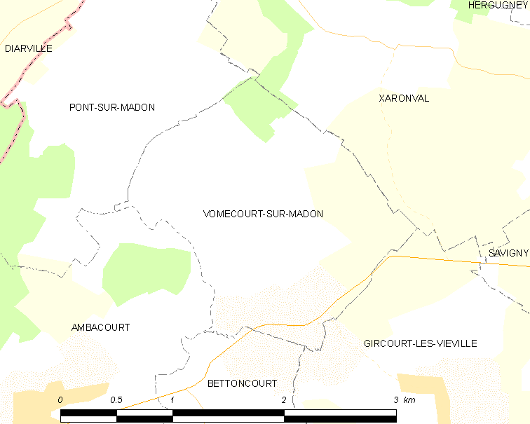 Map of French municipality Vomécourt-sur-Madon